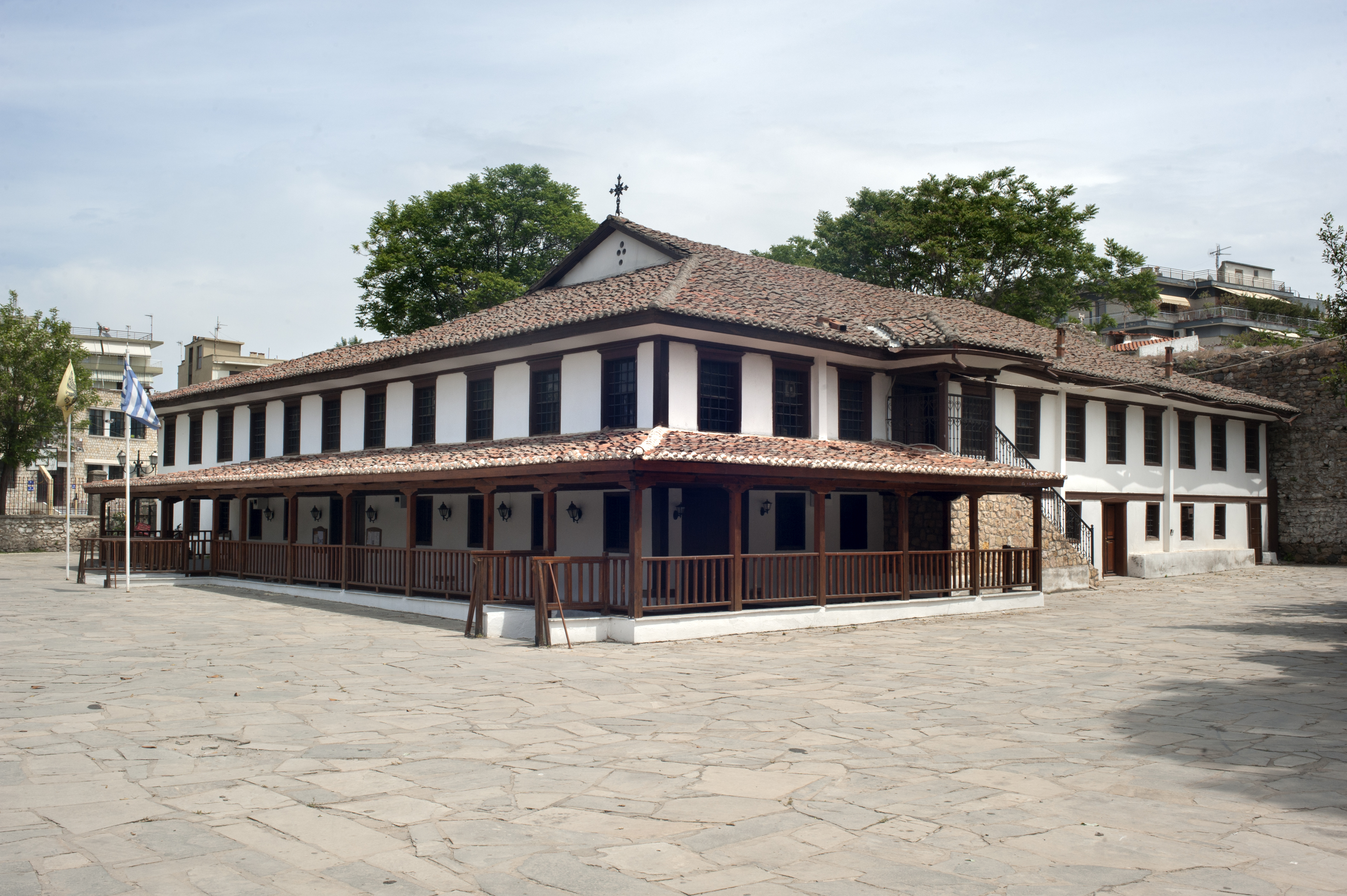 Greek orthodox church Panagias, Komotini, West Thrace, Greece.